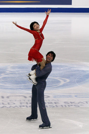 2010 World Figure Skating Championships - Yuko Kavaguti and Alexander Smirnov